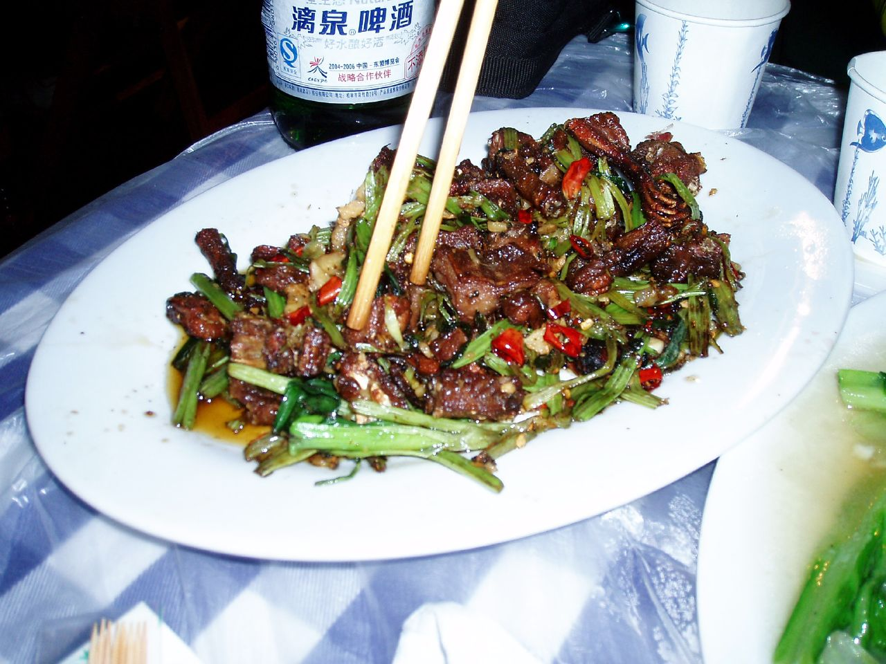 Rodent meat with vegetables, Yangshuo, Guangxi, China